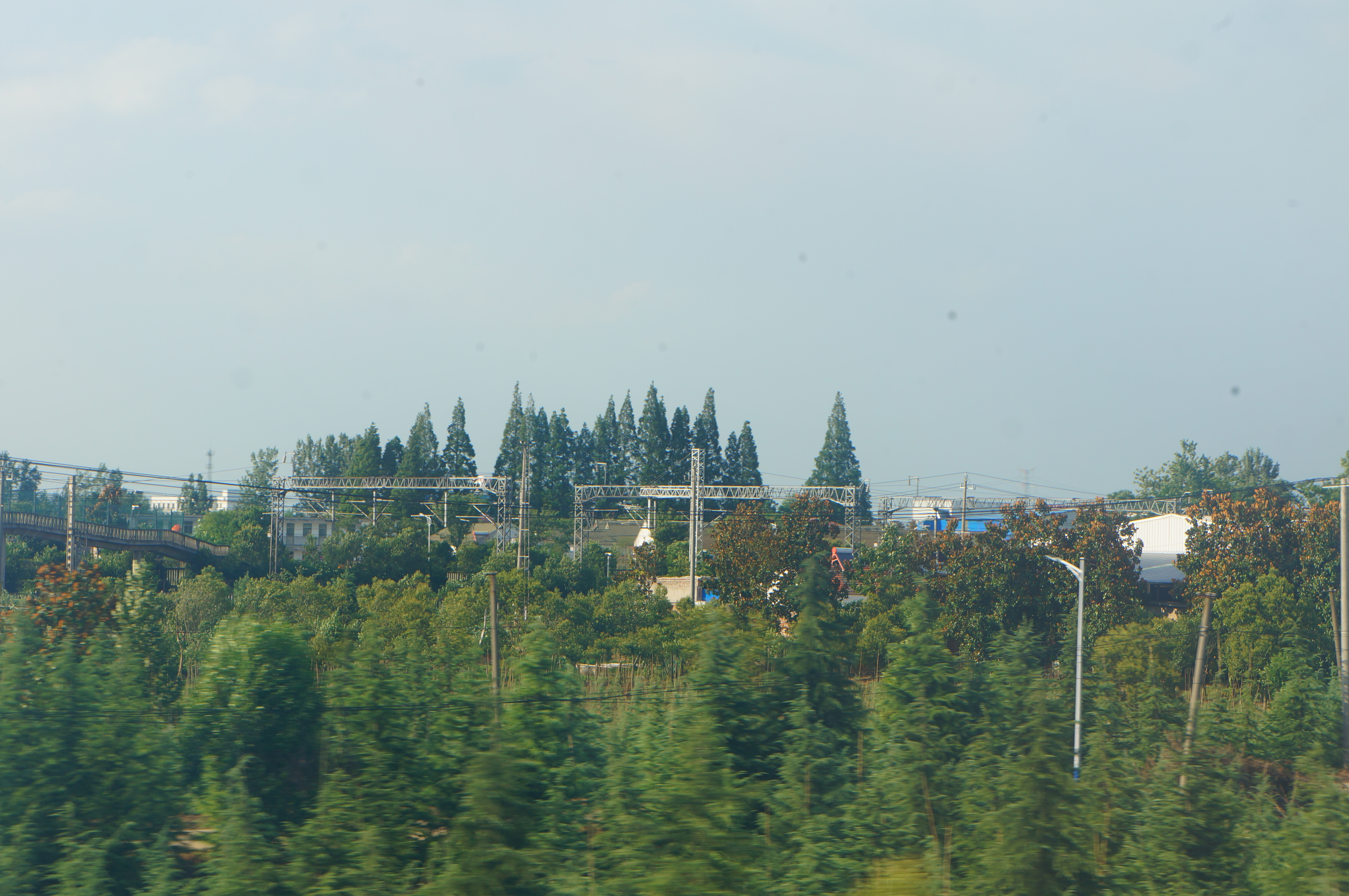 201806 Tracks at Yongningzhen Station